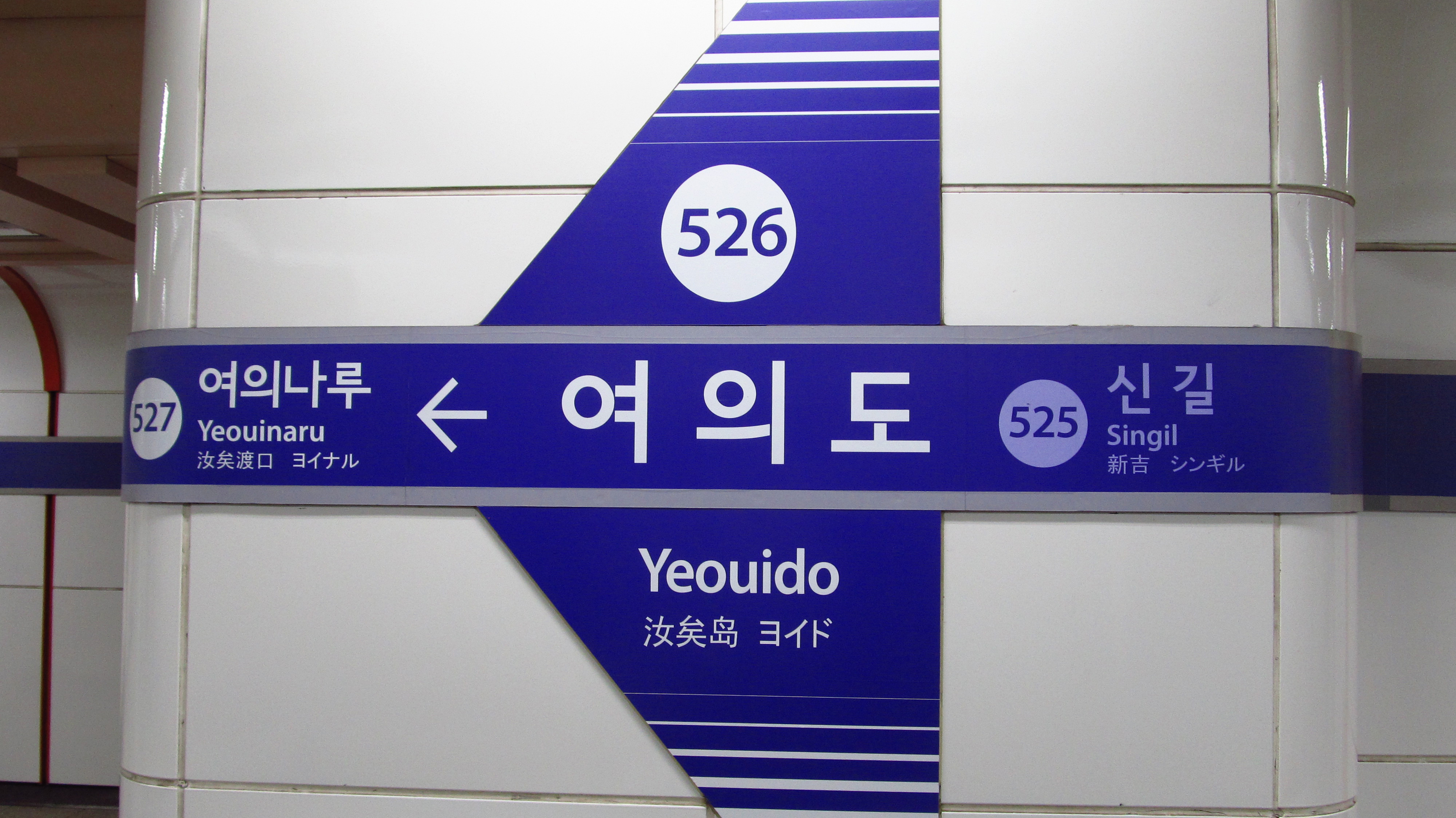 A sign of Yeouido Station on Seoul Subway Line 5